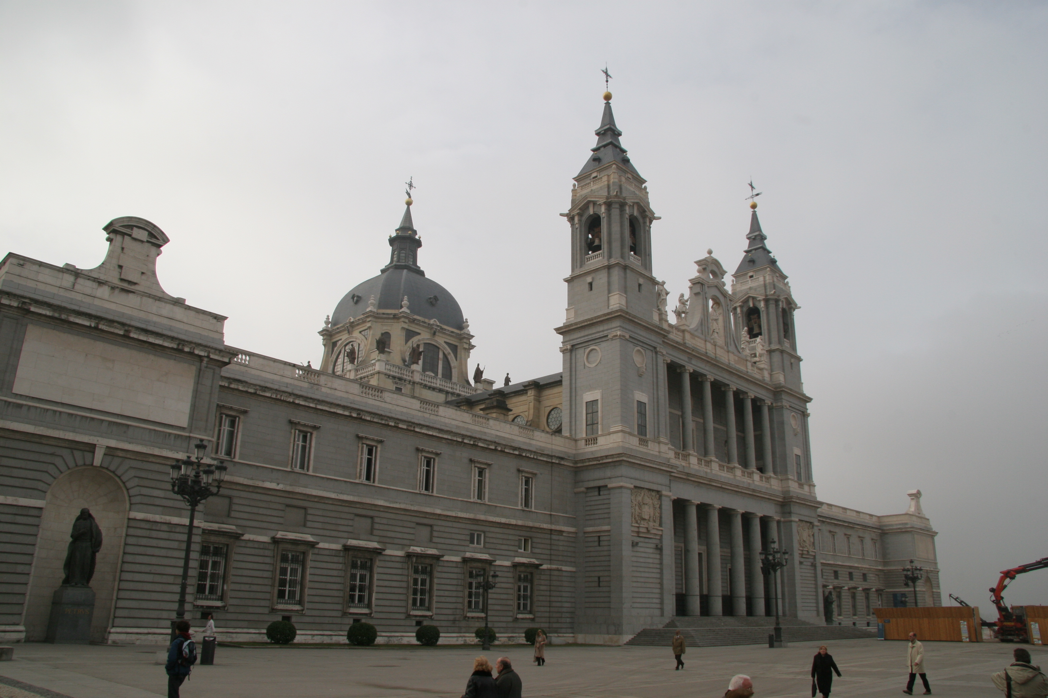 North façade of the Almudena Cathedral in Madrid (Spain).